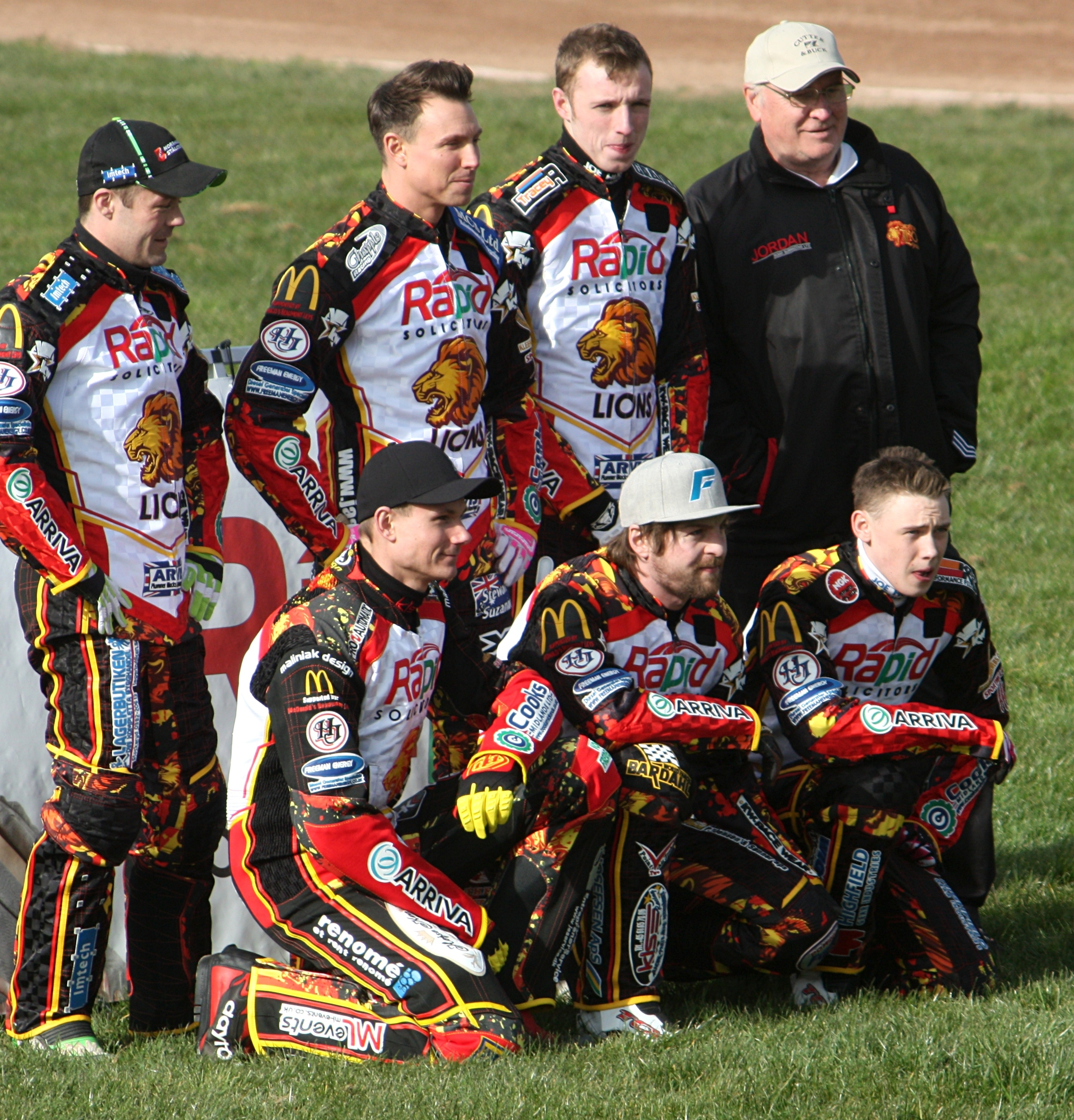 Leicester Lions 2014 team. Back row L-R: Peter Ljung, Simon Stead, Tom Perry, Norrie Allen (Team Manager), Front row: Patrick Hougaard, Mads Korneliussen, Max Clegg (Jason Doyle absent)